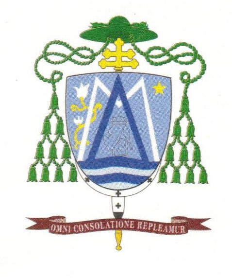 Coat of Arms of the Arcidicesi Cosenza-Bisignano